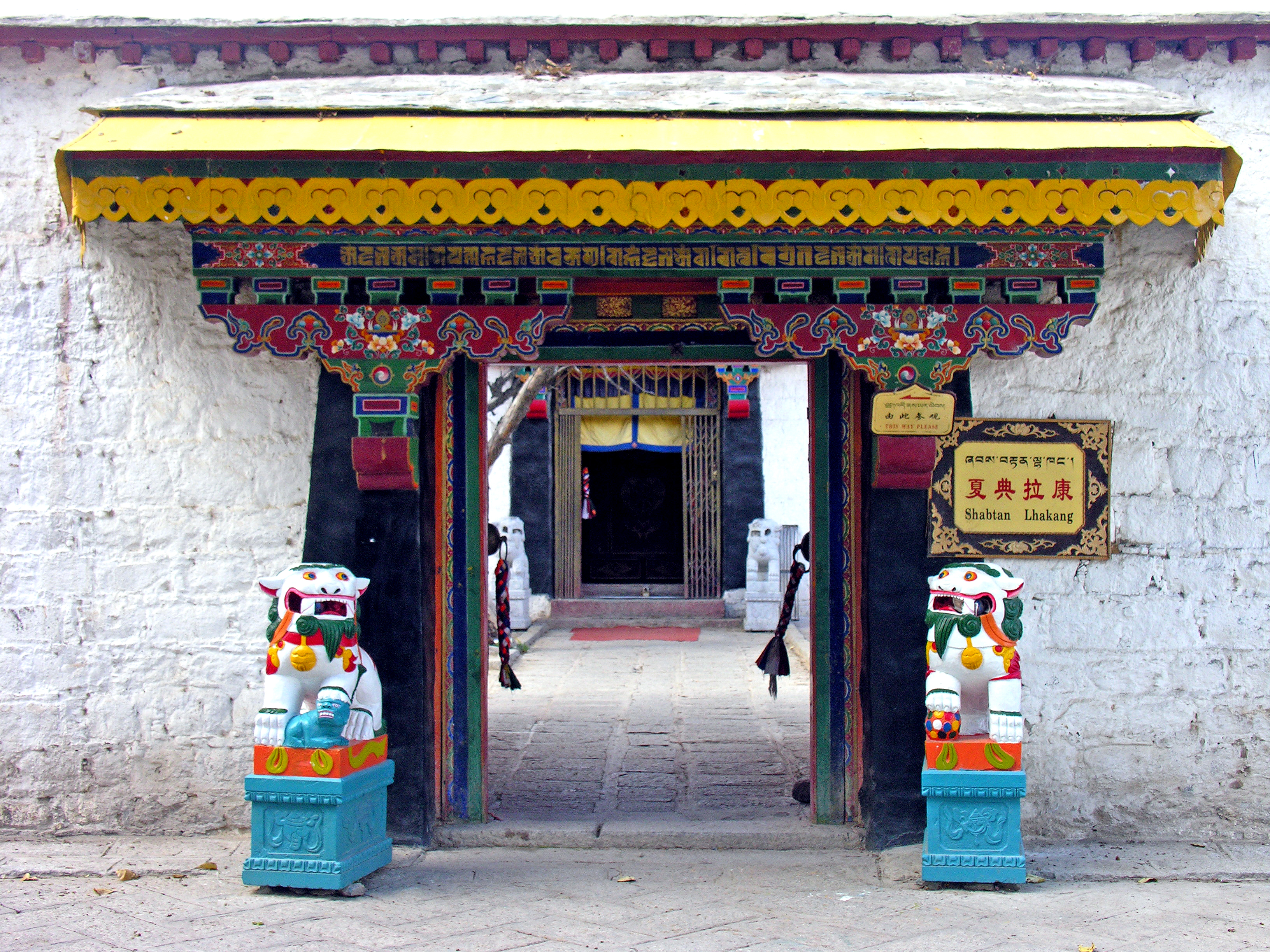 One of the buildings being used by officials of the government at the Summer Palace of the Dalai Lama (Norbu Lingka). Lhasa, Tibet